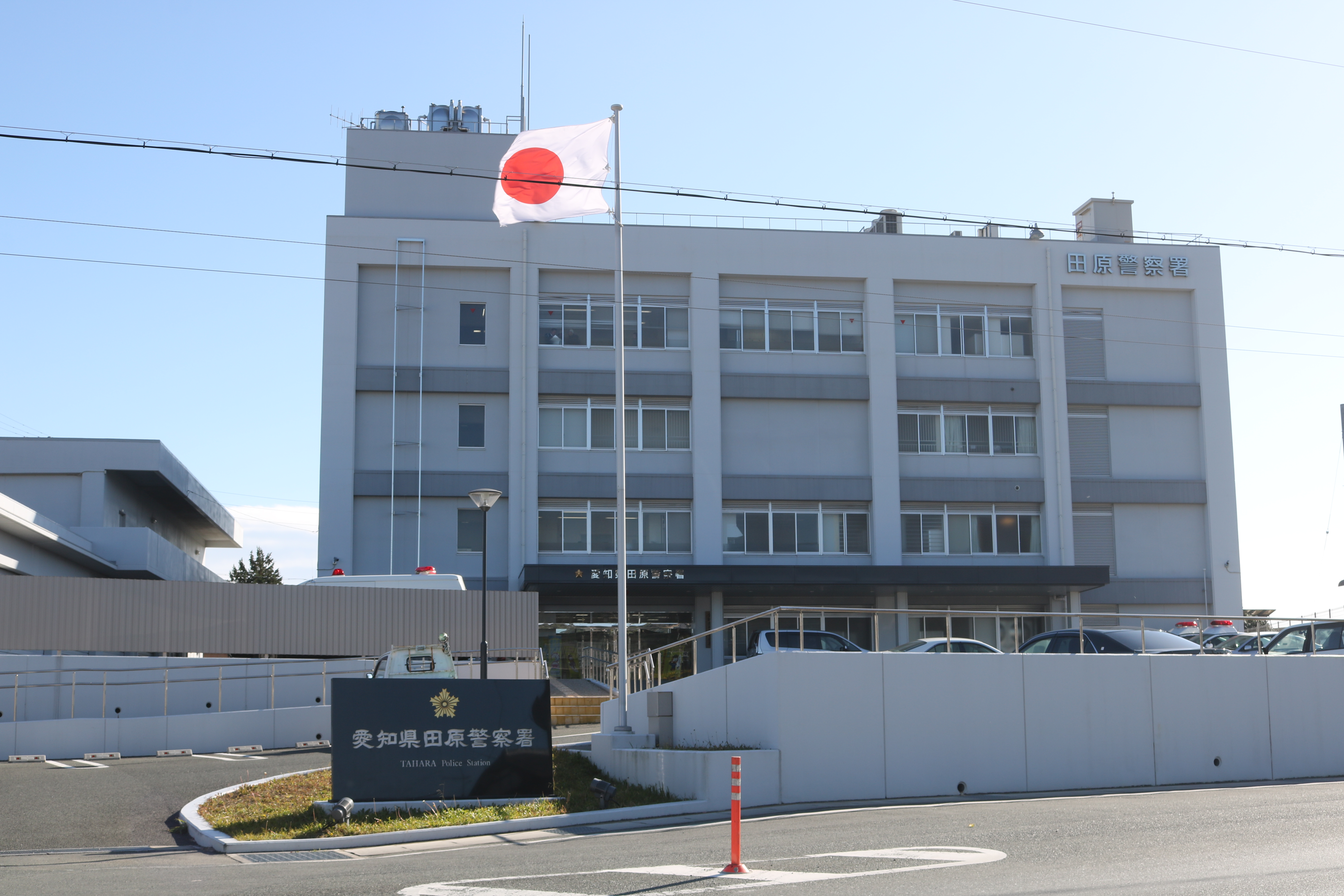 Tahara Police Station in Tahara, Aichi prefecture, Japan.